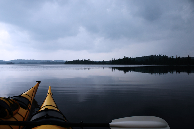 This is my first time camping. Early morning on Lake Temagami.